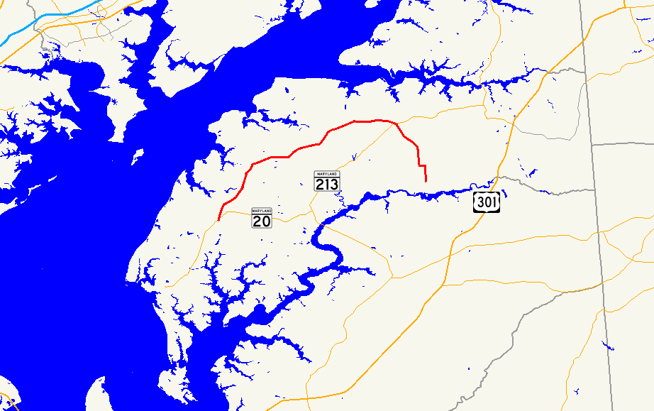 Map of Maryland Route 298